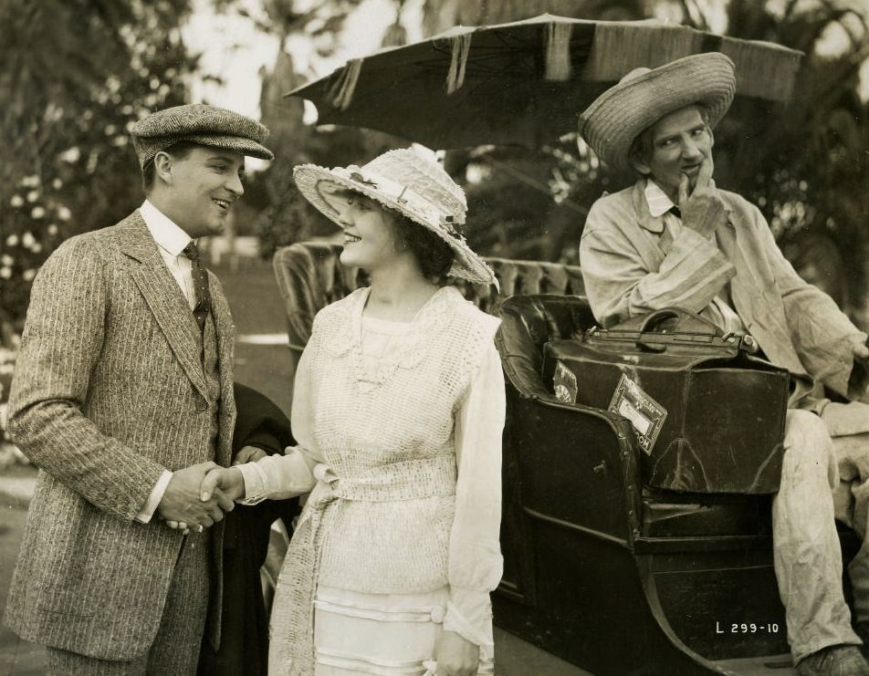 Left to right: Bryant Washburn, Lois Wilson, and John Cossar in the American comedy film Love Insurance (1919) - publicity still.